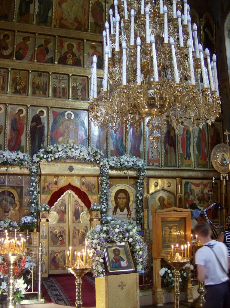 Church of the Theotokos of Kazan on Red Square (Moscow)